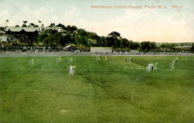 Association Cricket Ground, Perth, West Australia. Early coloured image of the cricket ground at Perth, with a large crowd watching a game in progress. Unfortunately no detail of the match in progress, but must have been major based on crowd size, with the original 1890's stand evidently packed.